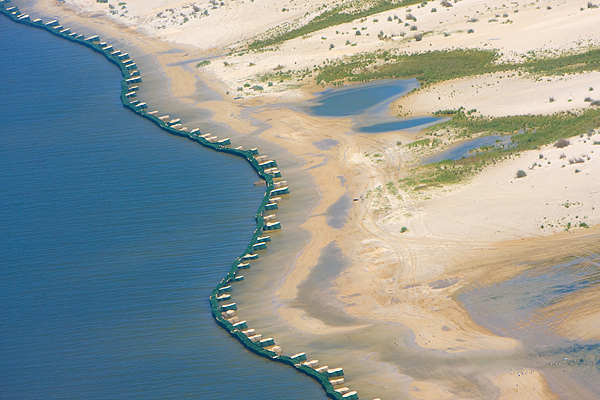 Photo of barrier wall constructed for Dauphin Island during the Deepwater Horizon oil spill in 2010